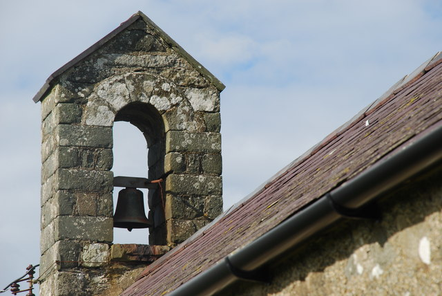 Cloch Eglwys Maelrhys Sant Llanfaelrhys Bell. The 19th century bell cote added to the ancient 568670